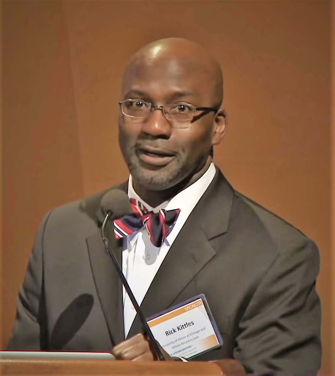 Using DNA to Explore African Ancestry - Rick Kittles September 12, 2013 - The African Diaspora: Integrating Culture, Genomics and History More